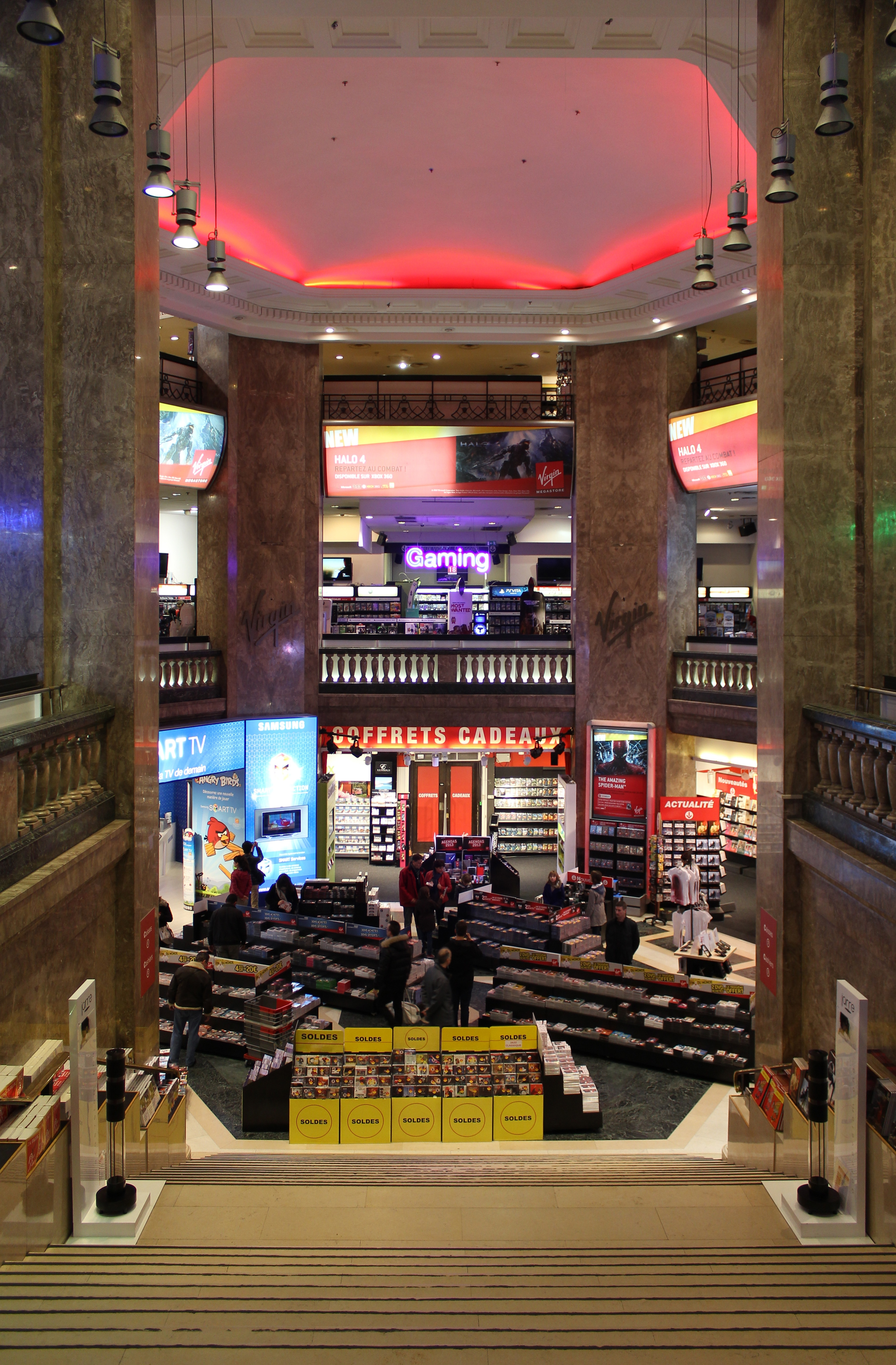 The main hall of the flagship Paris Virgin Megastore, taken after walking through the main entrance. Of note: a 2006 photo of exactly the same angle (NB different shelving, floor layout, concessions)